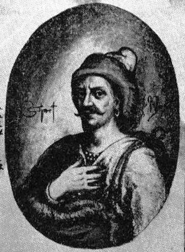 Prince Vamek Liparteliani